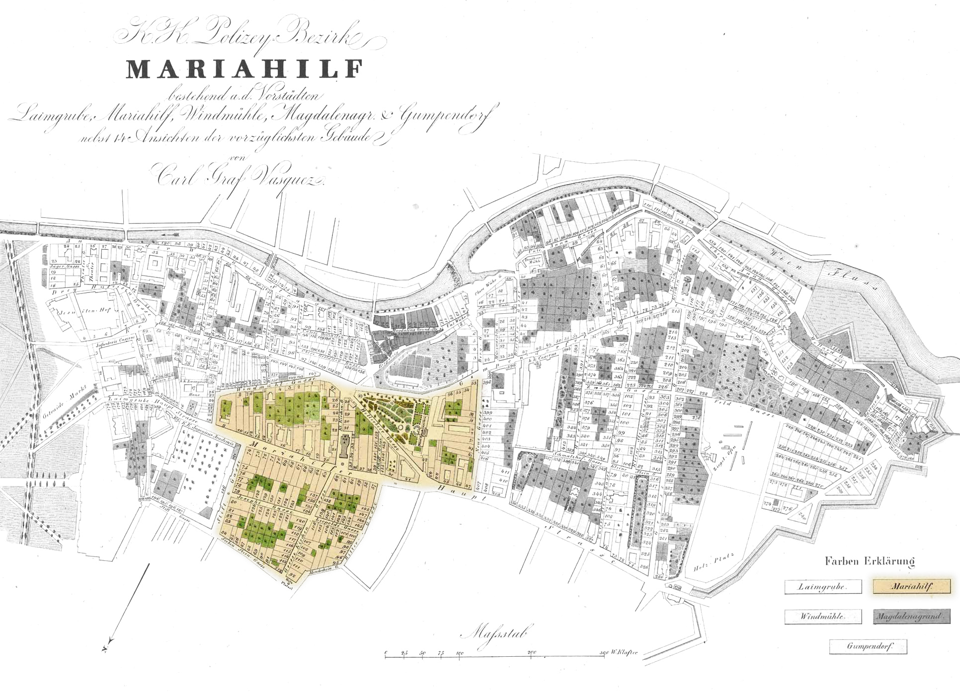 Map of Vienna / Mariahilf, approx. 1830